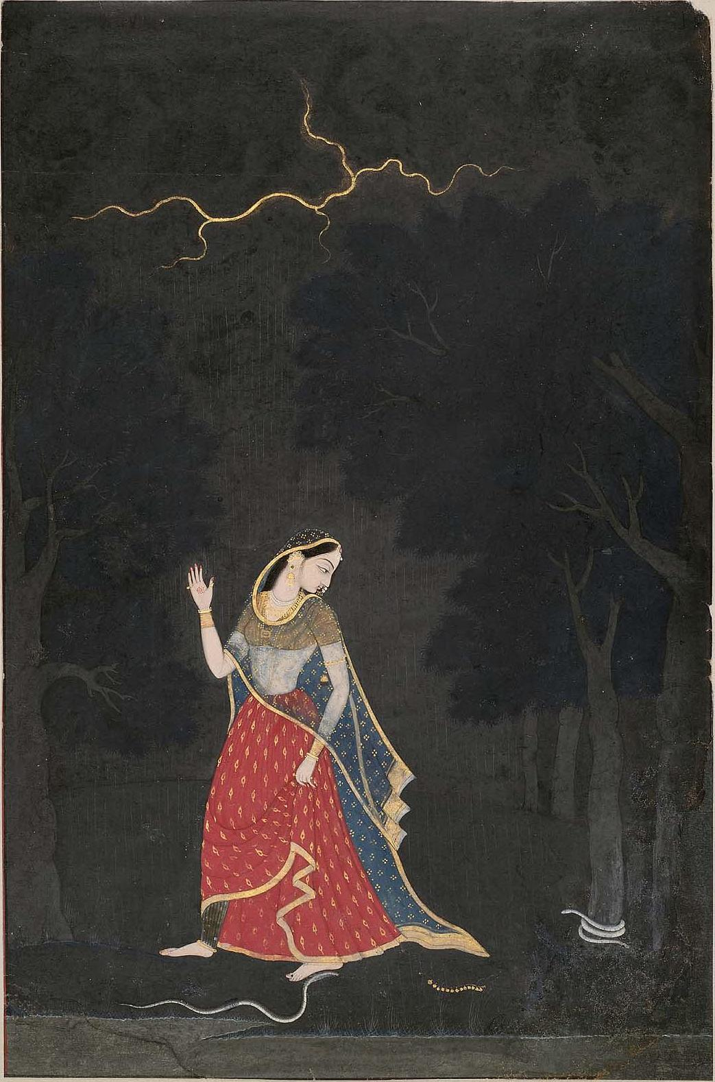 Abhisarika Nayika ("The Heroine Going to Meet Her Lover at an Appointed Place"). Opaque watercolour and gold on paper. One of the paintings in the Ross-Coomaraswamy collection at MFA. Description from the MFA website: "Night scene: a woman walks between two groups of trees. She looks down over her shoulder at a golden anklet, which has apparently just fallen off. Several snakes appear at her feet, including one which has wrapped itself around the base of a tree at the right. Above there is a multi-forked bolt of lightning. Attribution to Mola Ram of Garhwal was made by a descendant of the artist, Balak Ram Sah."